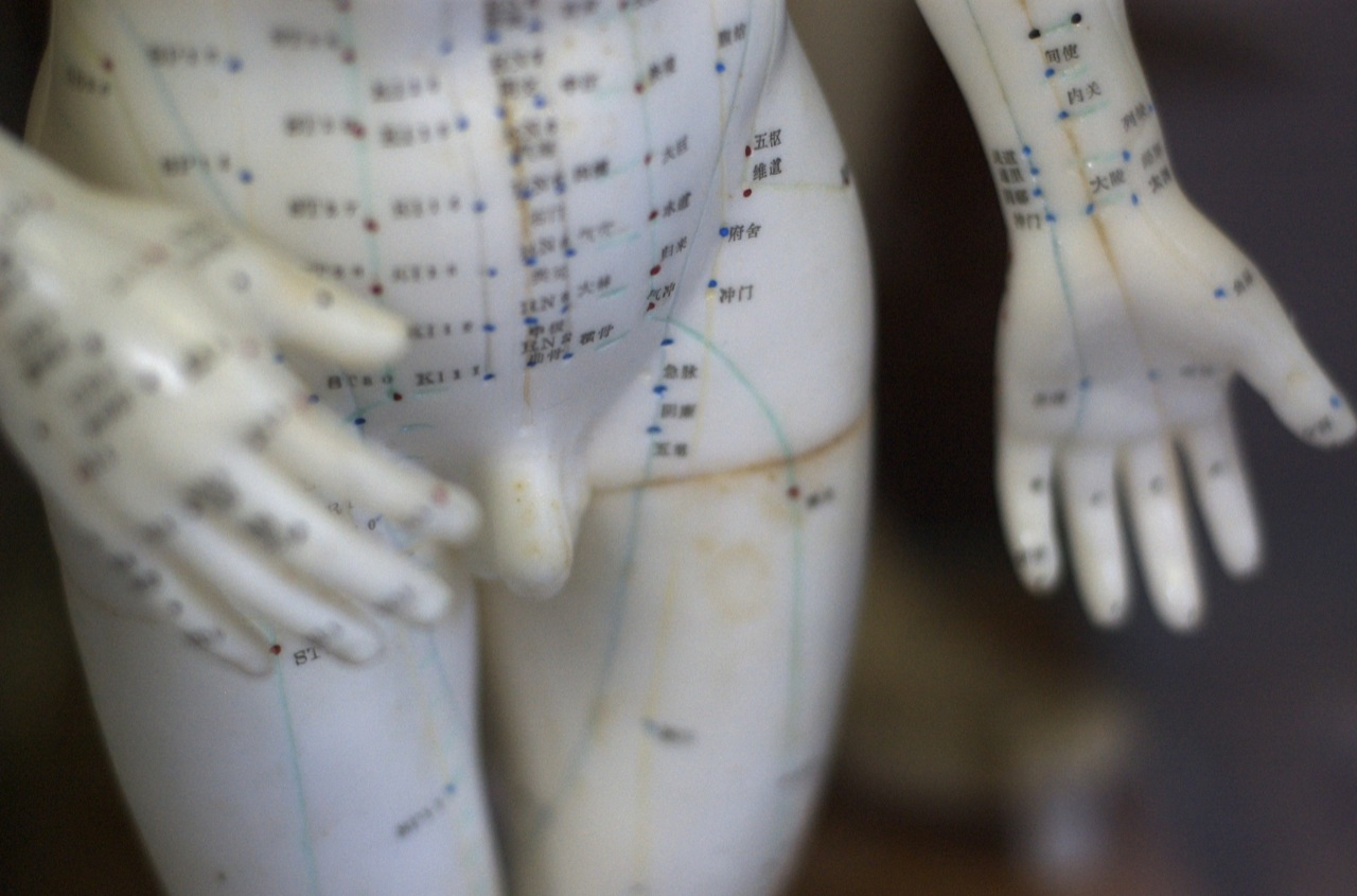 Phhheewww! Glad to see no needles go near there. Chinatown, NYC This work is licensed under Creative Commons 2.0 Generic. You are free to share and to remix with attribution.